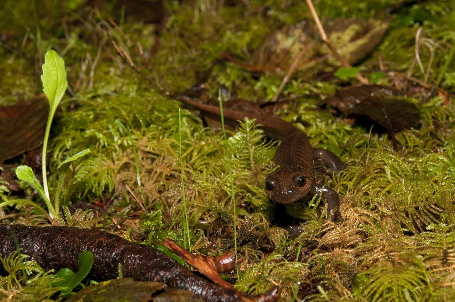 A Northwest salamander (Ambystoma gracile) darts along the ground at Cape Meares National Wildlife Refuge in Oregon. (Roy W. Lowe/USFWS)